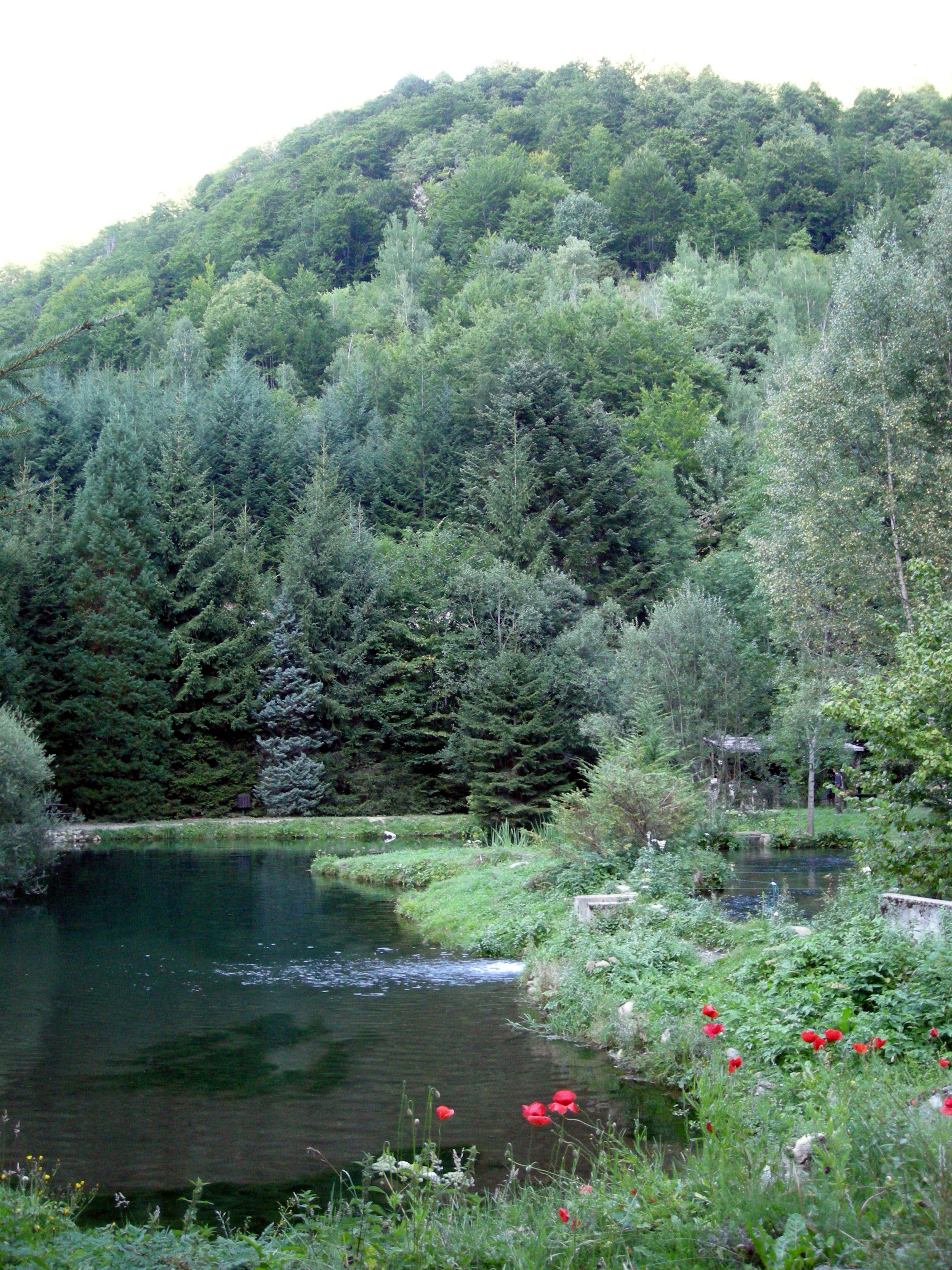 Lafajolle (Aude)